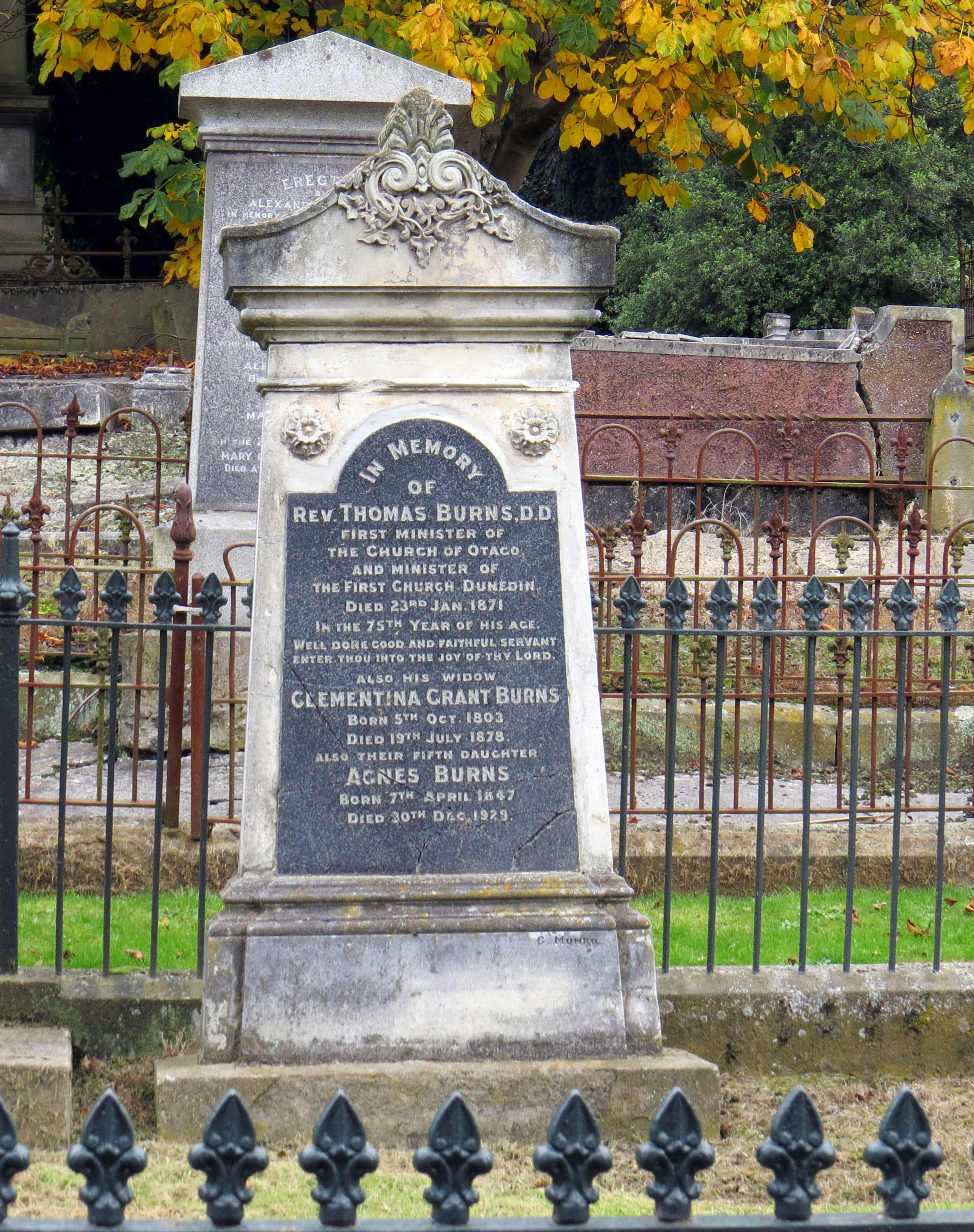 Tomb of early New Zealand settler Thomas Burns (minister) in Dunedin Southern Cemetery. Photographed on 25 April 2015.